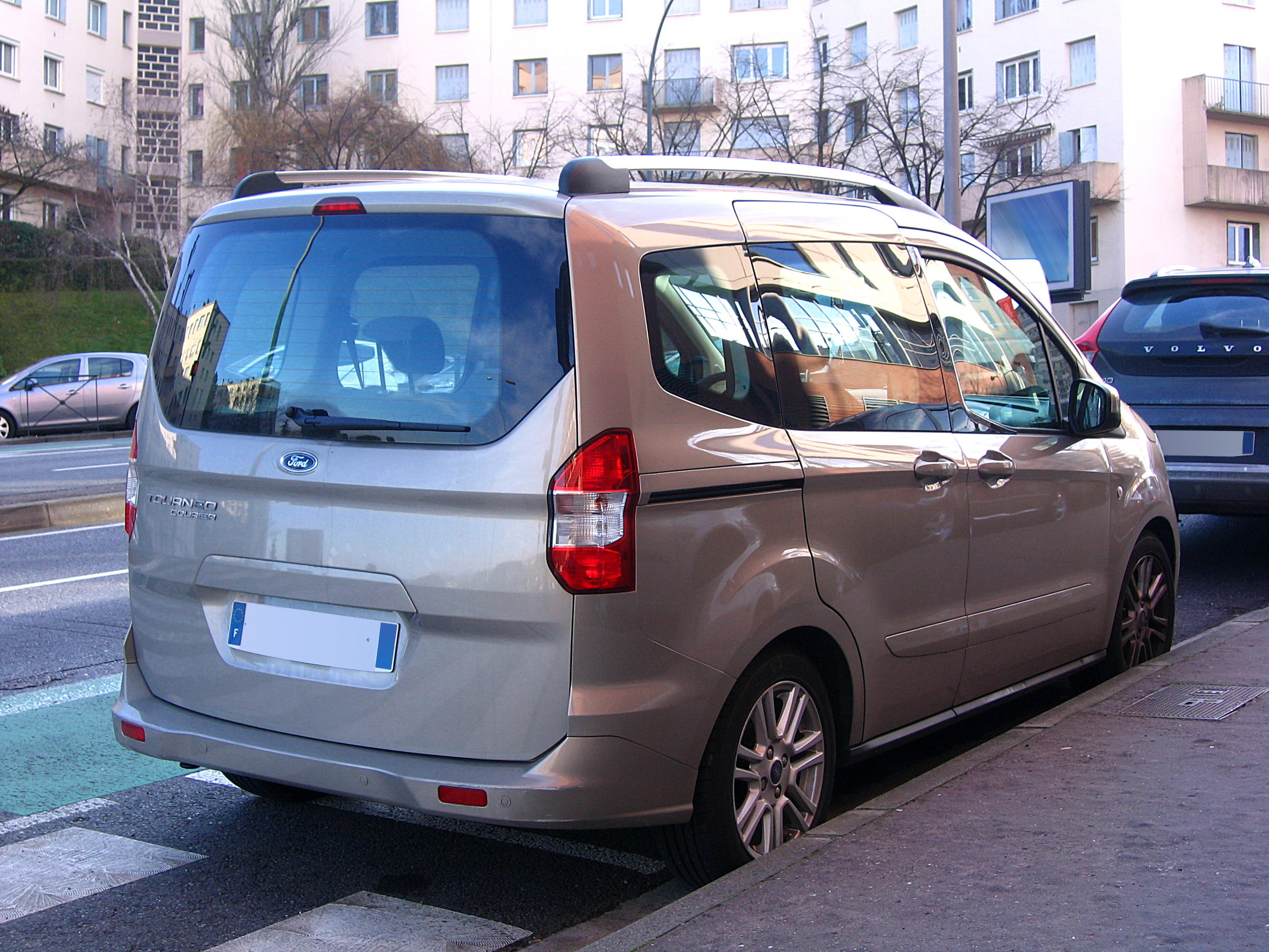 2014 Ford Tourneo Courier.